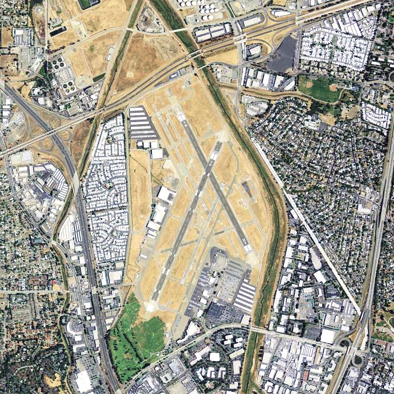 USGS digital orthophoto of Buchanan Field Airport in California